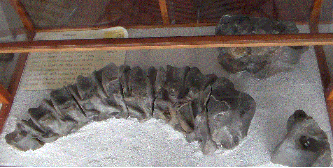 Vertebrae of the holotype specimen of Padillasaurus leivaensis.